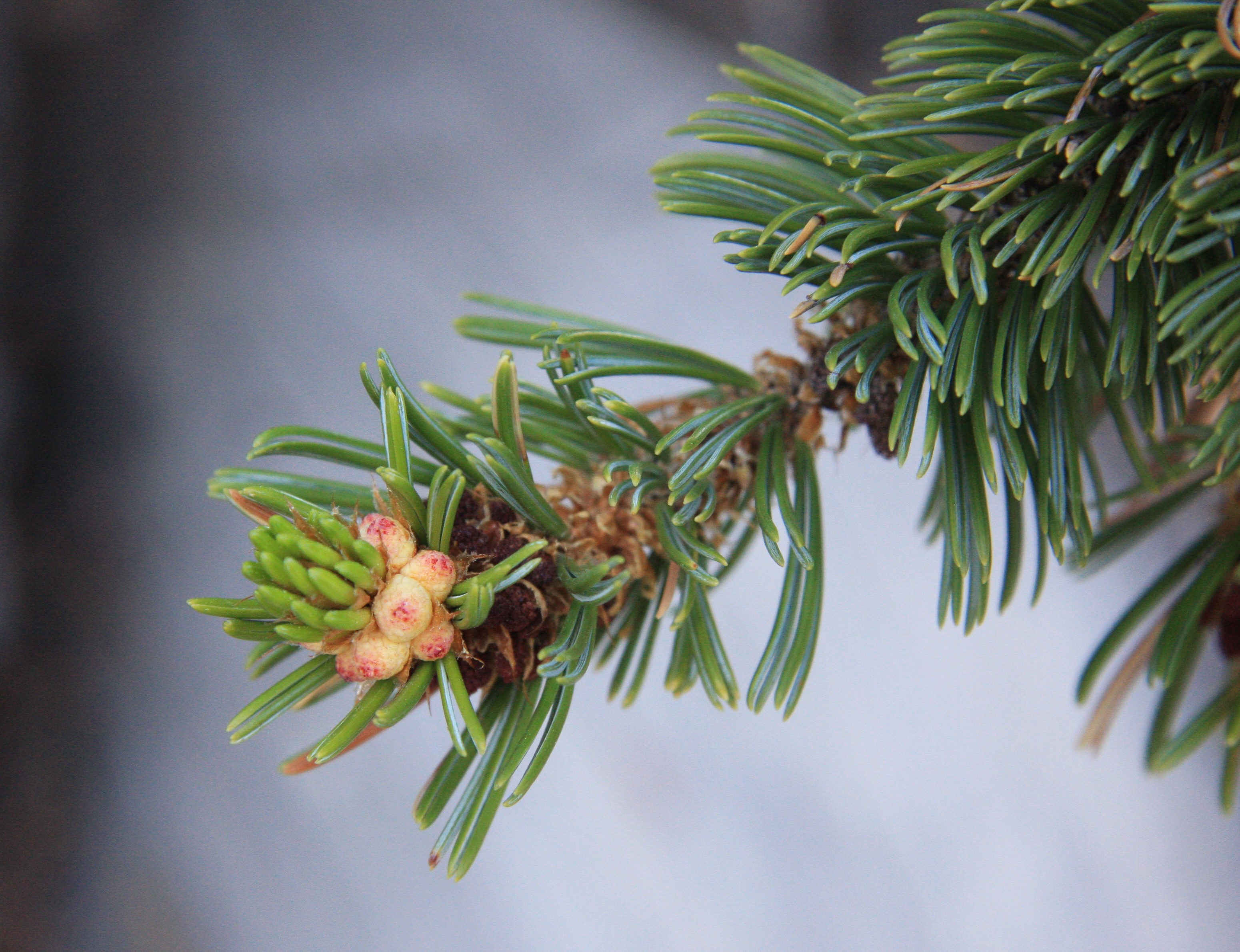 Great Basin Bristlecone Pine—Pinus longaeva, new growth on branch tip, showing the clusters of 5 needles. Along Methuselah Trail, Schulman Grove in the Ancient Bristlecone Pine Forest of the Inyo National Forest, in the White Mountains, Inyo County, eastern California.